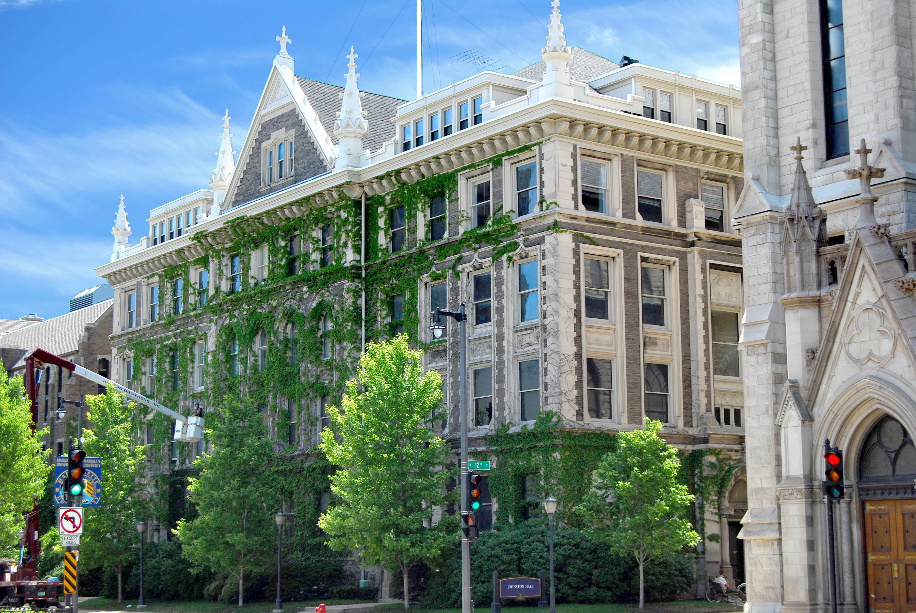 Johnston Hall on the Marquette University campus in Milwaukee, Wisconsin.